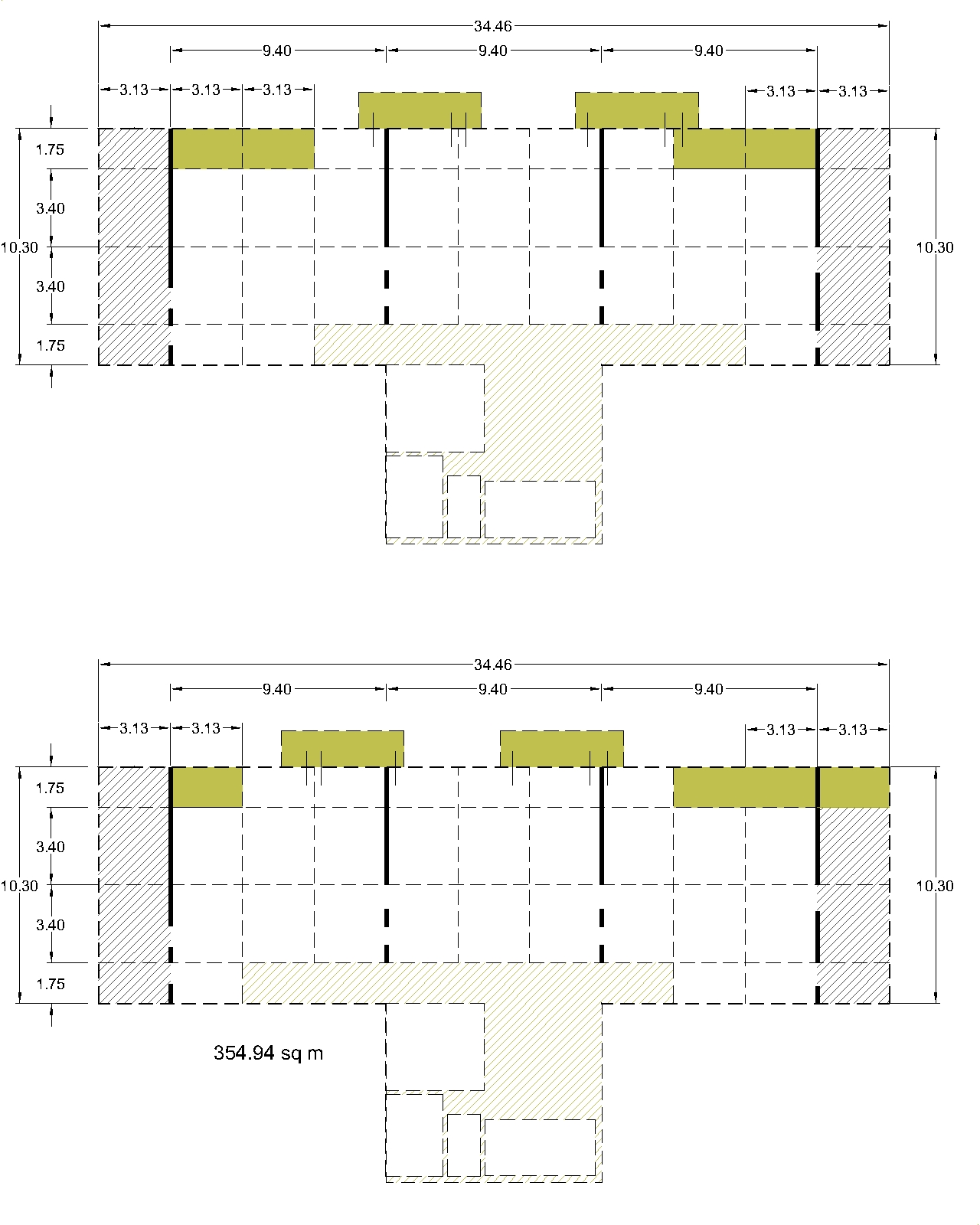 Edificio del Seguro Médico, Havana_Structural Plan Autocad